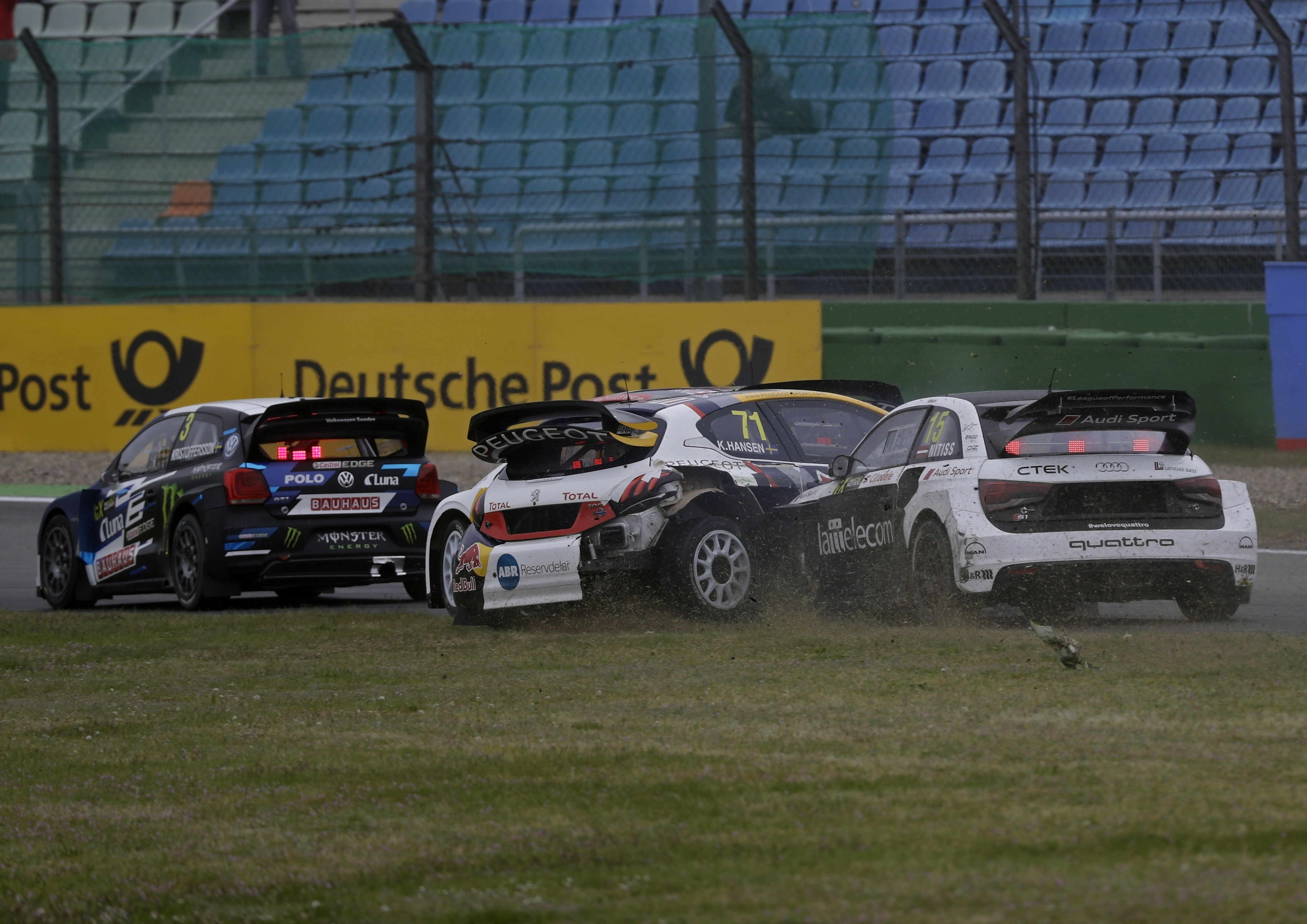 2017 FIA World Rallycross Championship // Round 03, Hockenheim // Credit: EKS/Bodo Kraeling